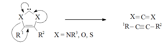 Decomposition Heteroaminocarbenes